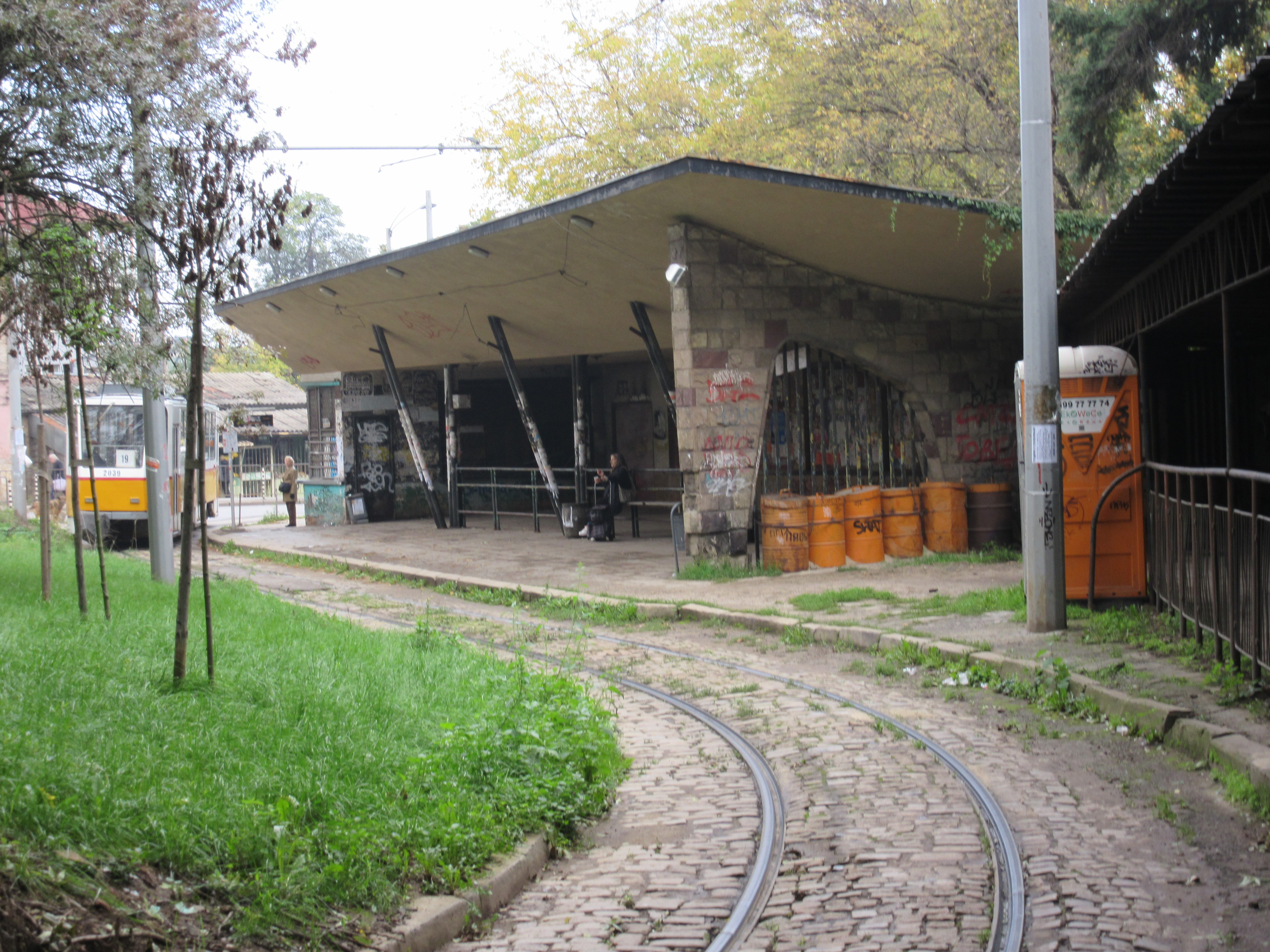 Knyazhevo Tram #5 line loop